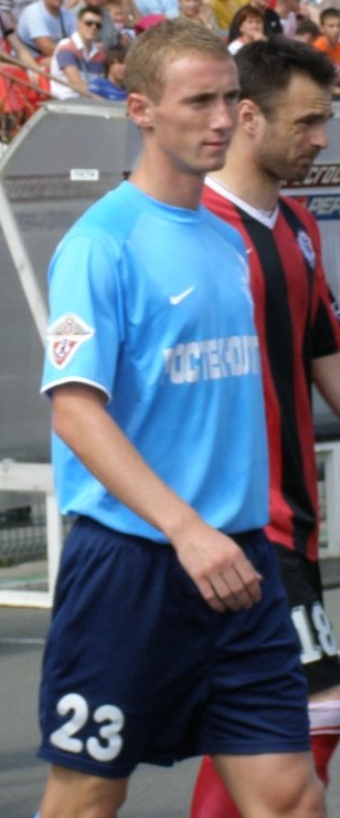 Vladislav Ignatiev in action for FC Krylia Sovetov